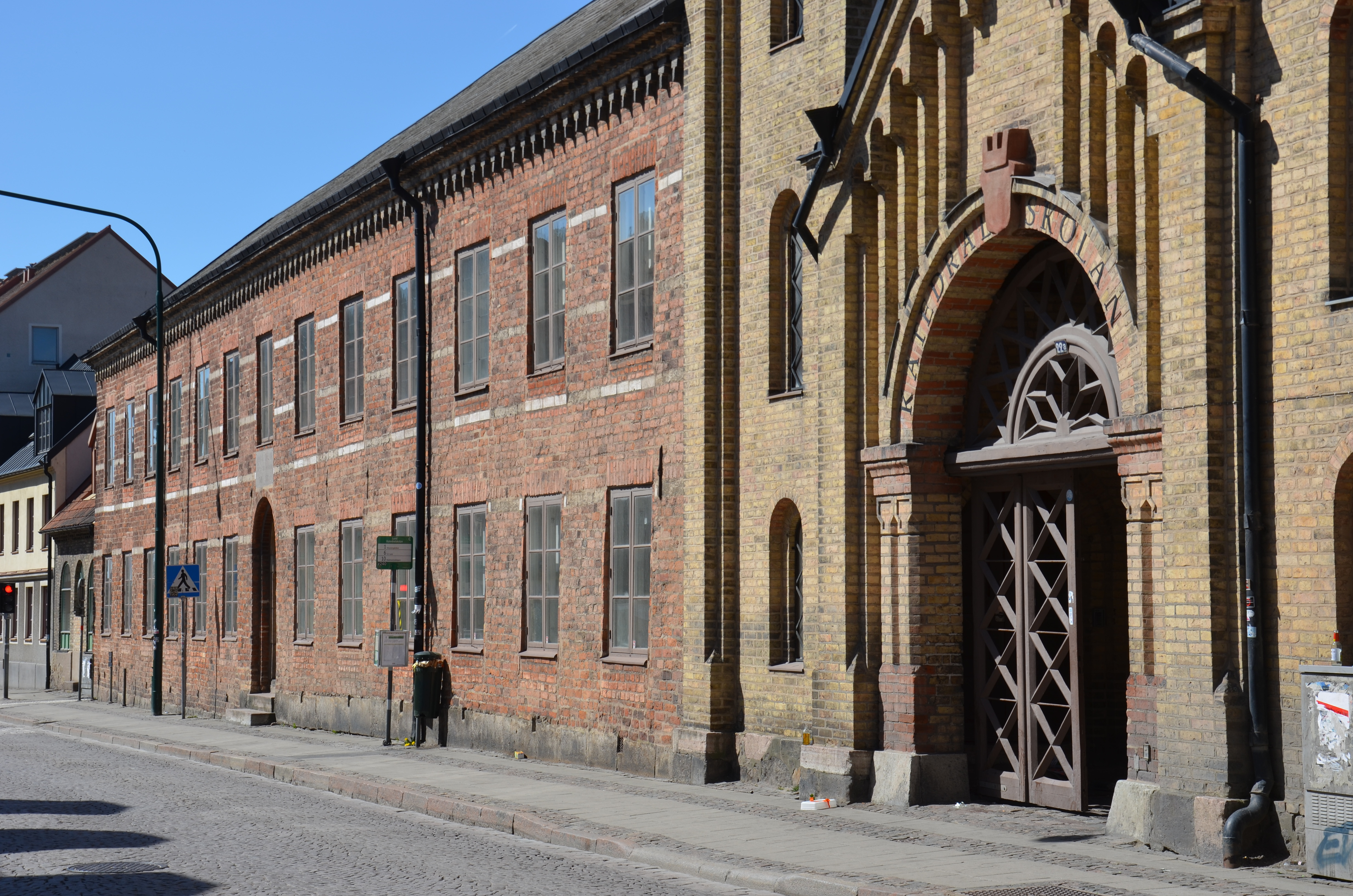 Katedralskolan in Lund, Sweden. Entrance portal from Stora Södergatan and the Karl XII house